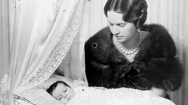 Princess Sibylla and her first born daughter Margaretha, 1934.